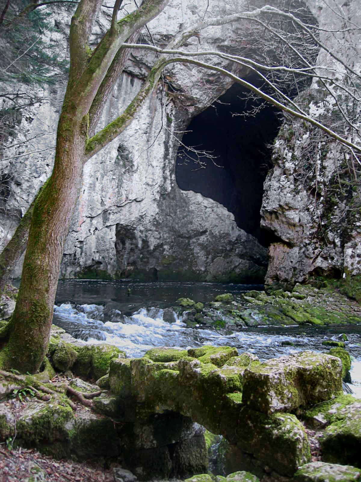 Rakov Škocjan, natural park in Slovenia, remains of an old saw. Karst river with Karst spring, collapsed dolines and Ponor (large cave sinkhole) in Inner Carniola. photo:Ziga 18:46, 7 April 2007 (UTC)